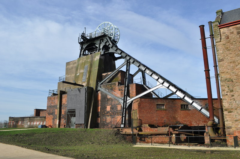 Pleasley Colliery - South Shaft, near to Pleasley, Derbyshire, Great Britain. The shaft has been surrounded in concrete to provide air to Shirebrooke colliery 3 miles away. This is what saved the headstocks and engines from demolition. The railway yards, coal cleaners/sorters etc were not so lucky.